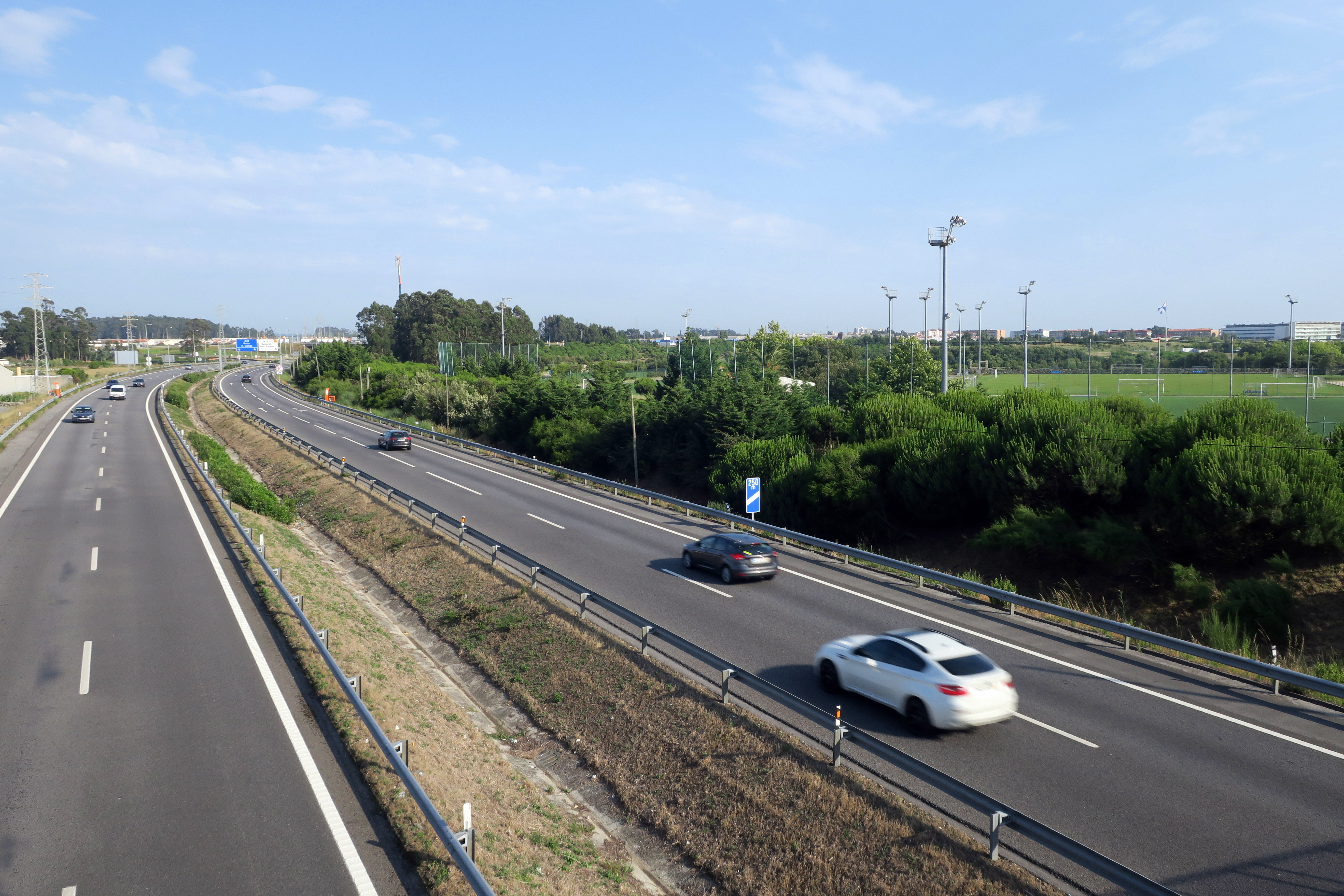 A28 motorway, Povoa de Varzim, Portugal